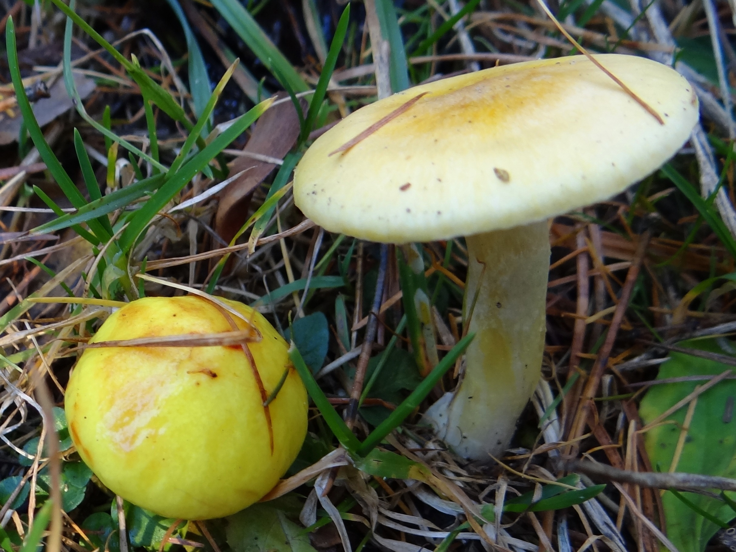 Hygrophorus lucorum